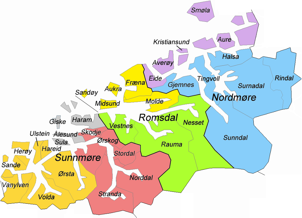 Map of Church of Norway deaneries in Møre og Romsdal county, NorwayNorsk bokmål: Kart over prostier i Møre og Romsdal fylke